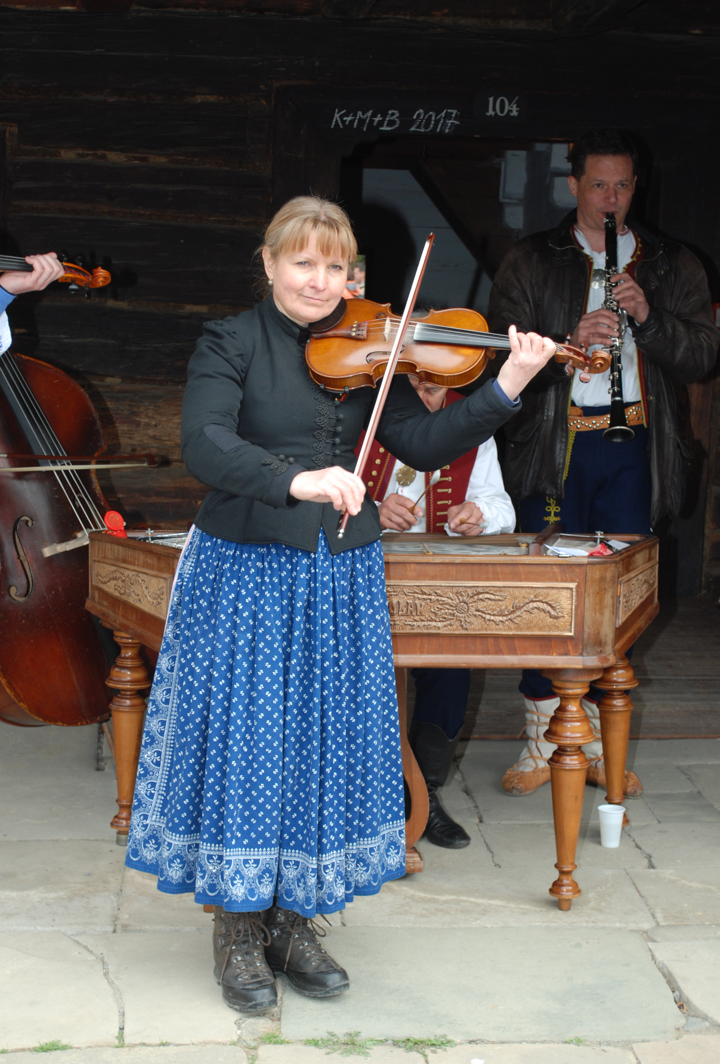 Traditional Vallachian music band